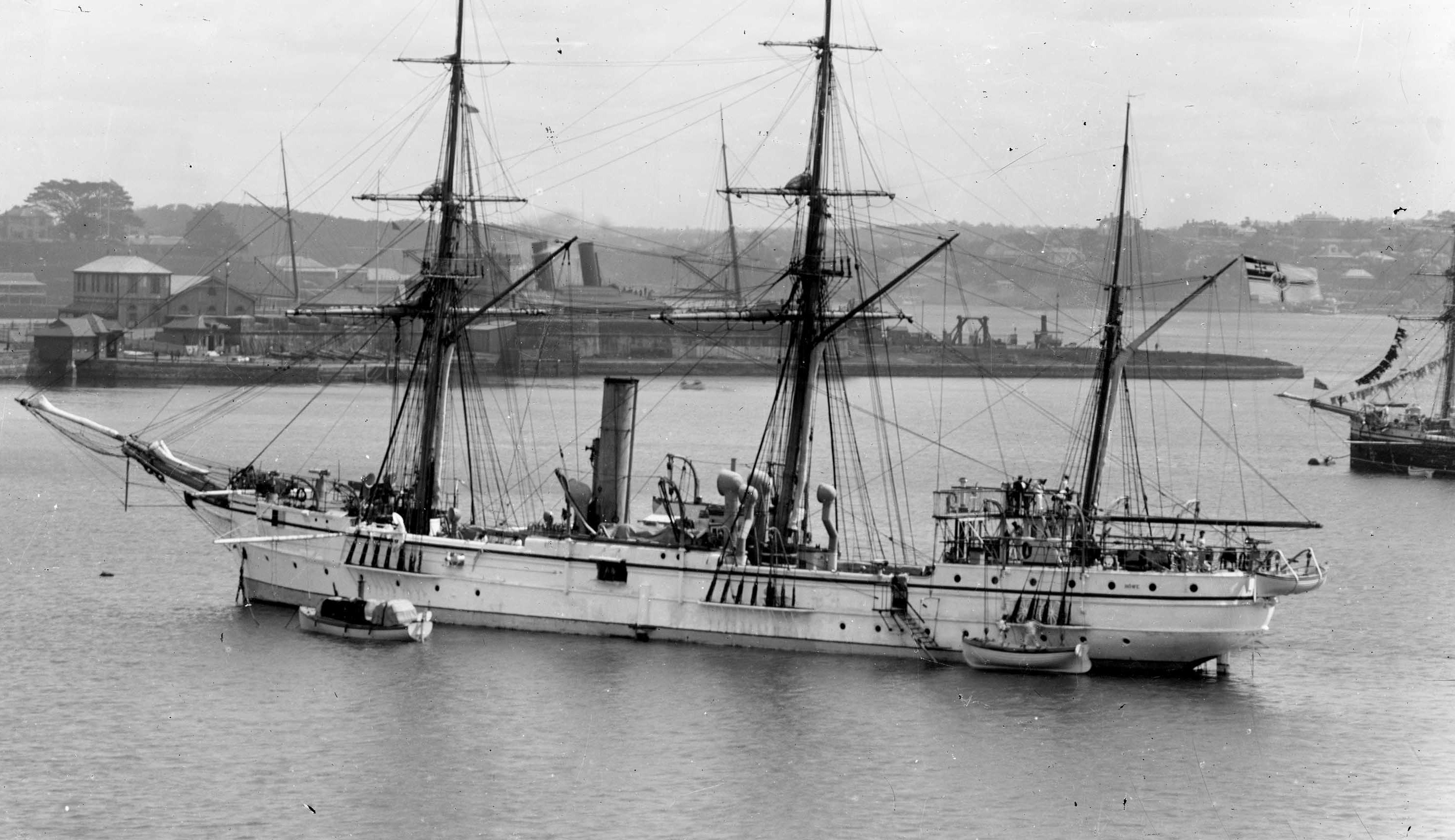 This photo is part of the Australian National Maritime Museum’s William Hall collection. The Hall collection combines photographs from both William J Hall and his father William Frederick Hall. The images provide an important pictorial record of recreational boating in Sydney Harbour, from the 1890s to the 1930s – from large racing and cruising yachts, to the many and varied skiffs jostling on the harbour, to the new phenomenon of motor boating in the early twentieth century. The collection also includes studio portraits and images of the many spectators and crowds who followed the sailing races. The Australian National Maritime Museum undertakes research and accepts public comments that enhance the information we hold about images in our collection. If you can identify a person, vessel or landmark, write the details in the Comments box below. Thank you for helping caption this important historical image. Object number: ANMS1092[204]